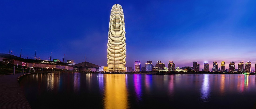 Zhengzhou Fairs and Exhibitions hotel